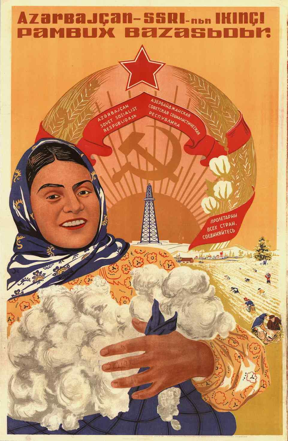 Poster of Azerbaijan 1937. Agriculture